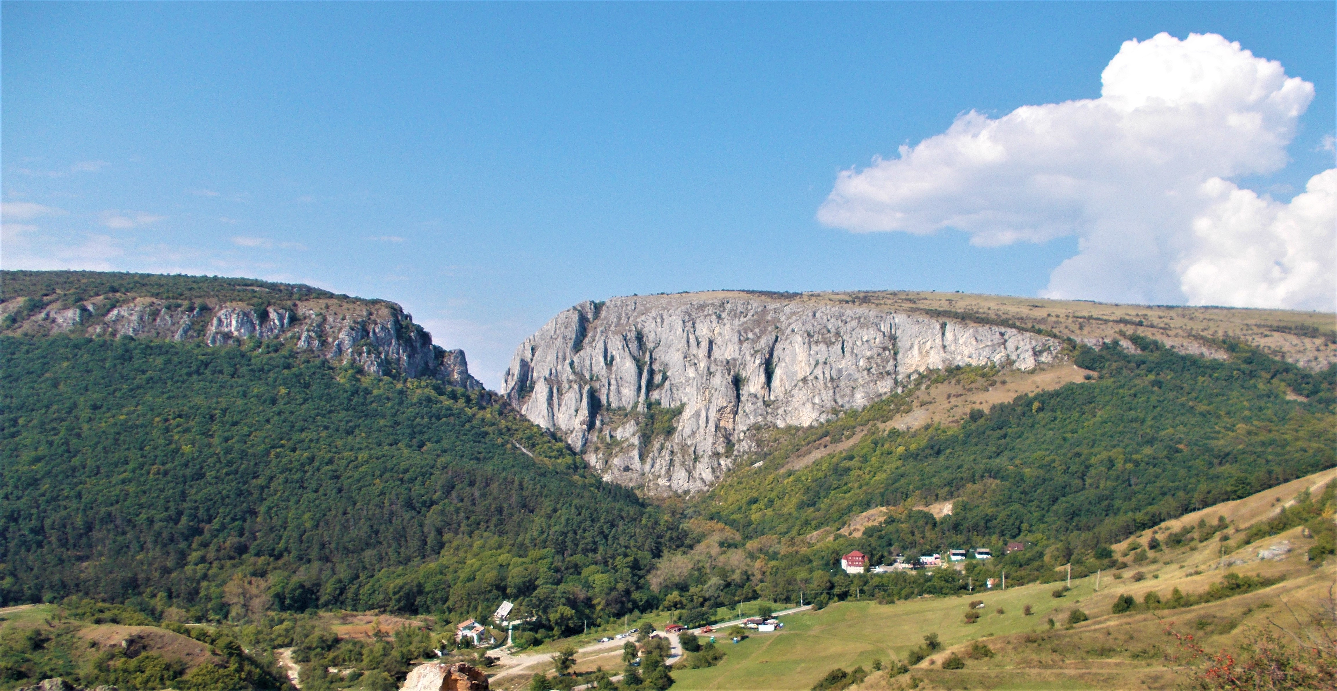 Turda Gorge, Cluj County, Romania